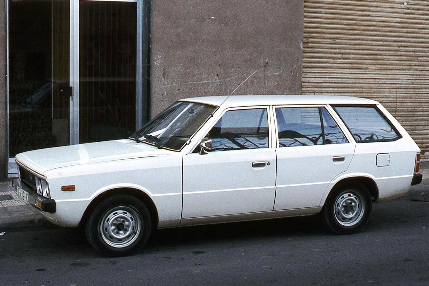 Hyundai Pony estate in Tenerife